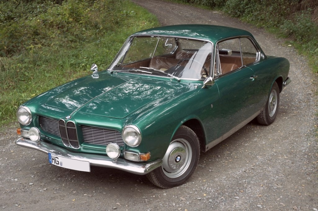 BMW 3200CS Bertone German GT-car